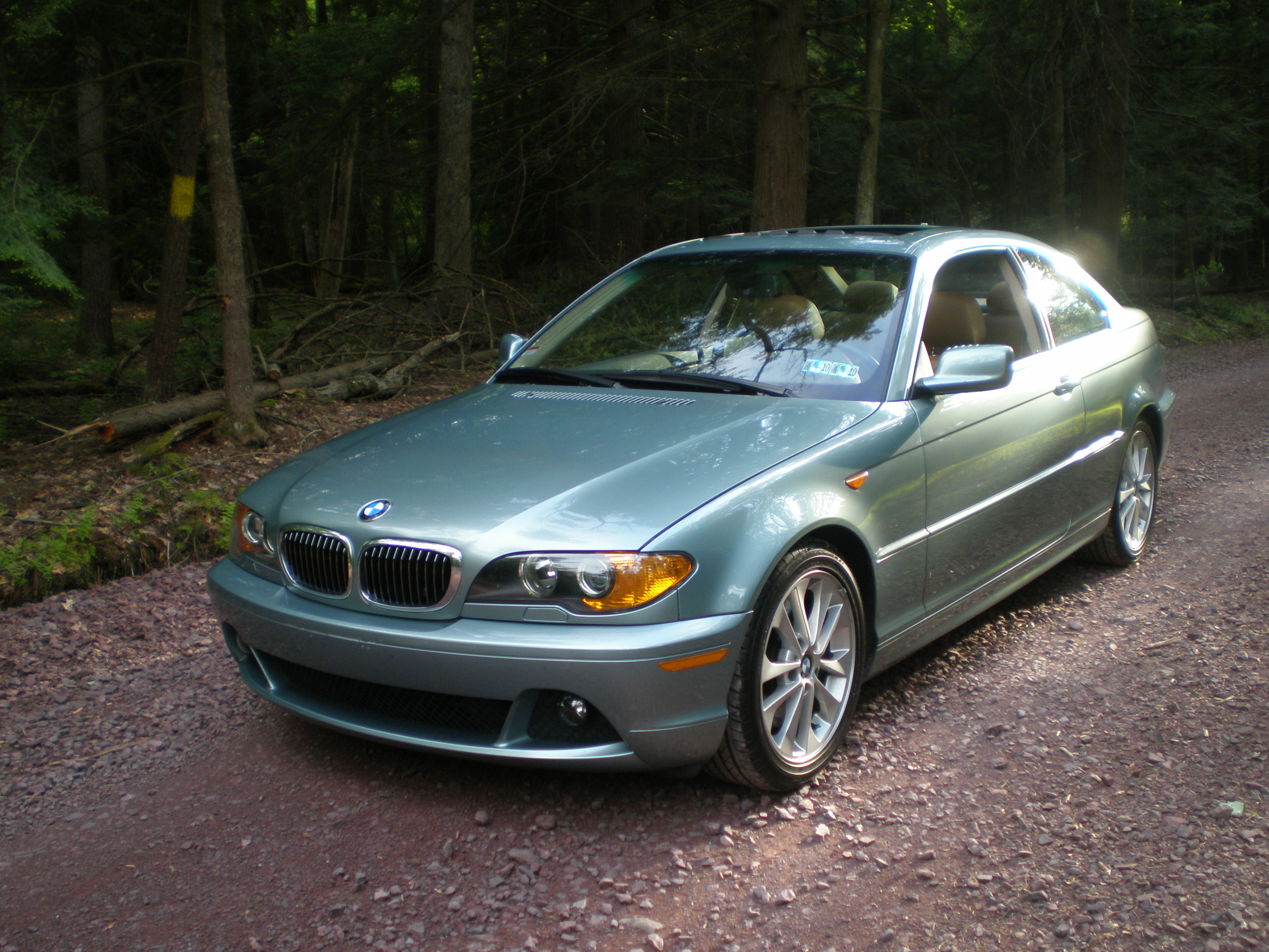 Rare Gray Green Metallic 330ci